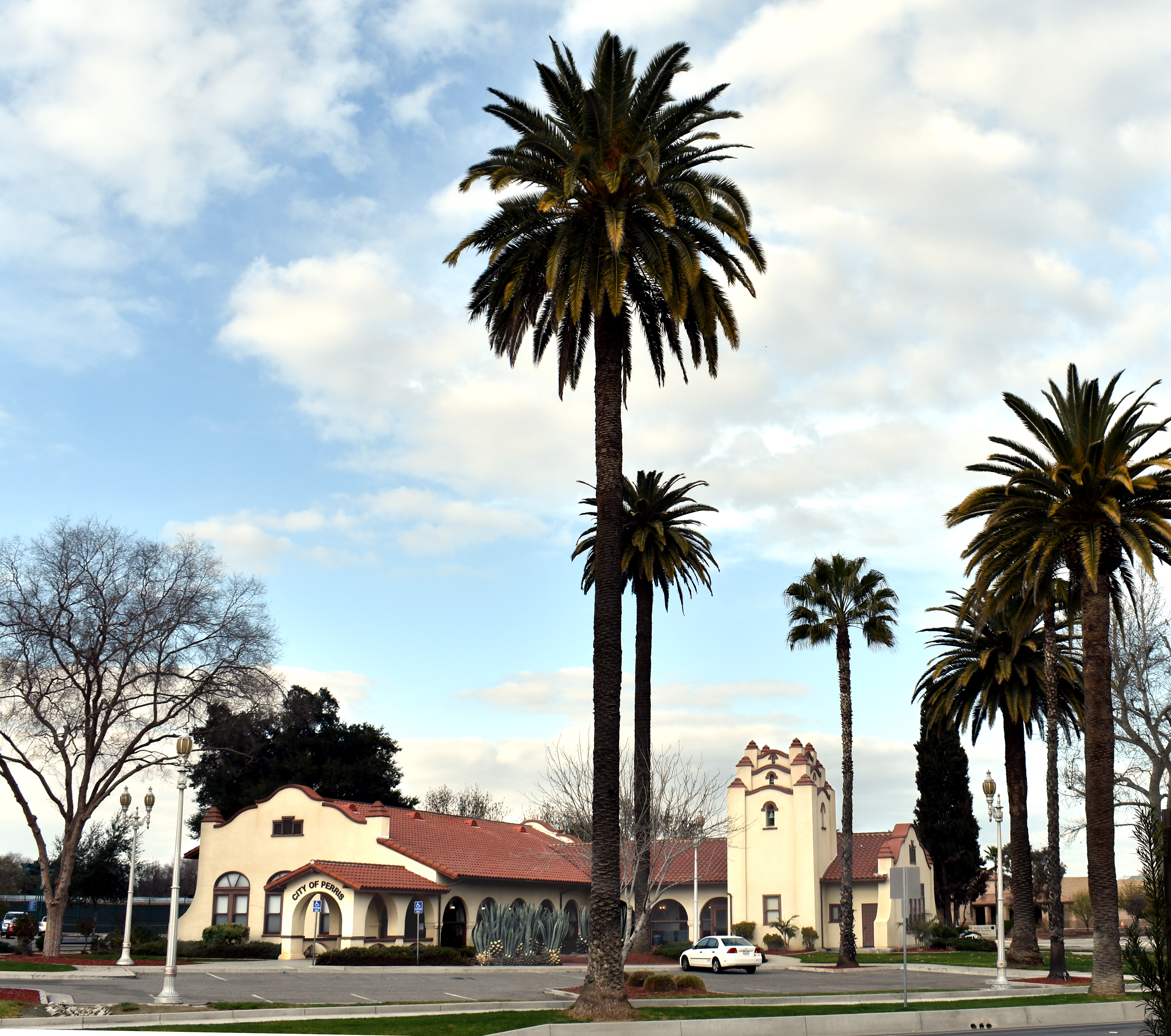 City Council Chambers building, Perris, California, USA